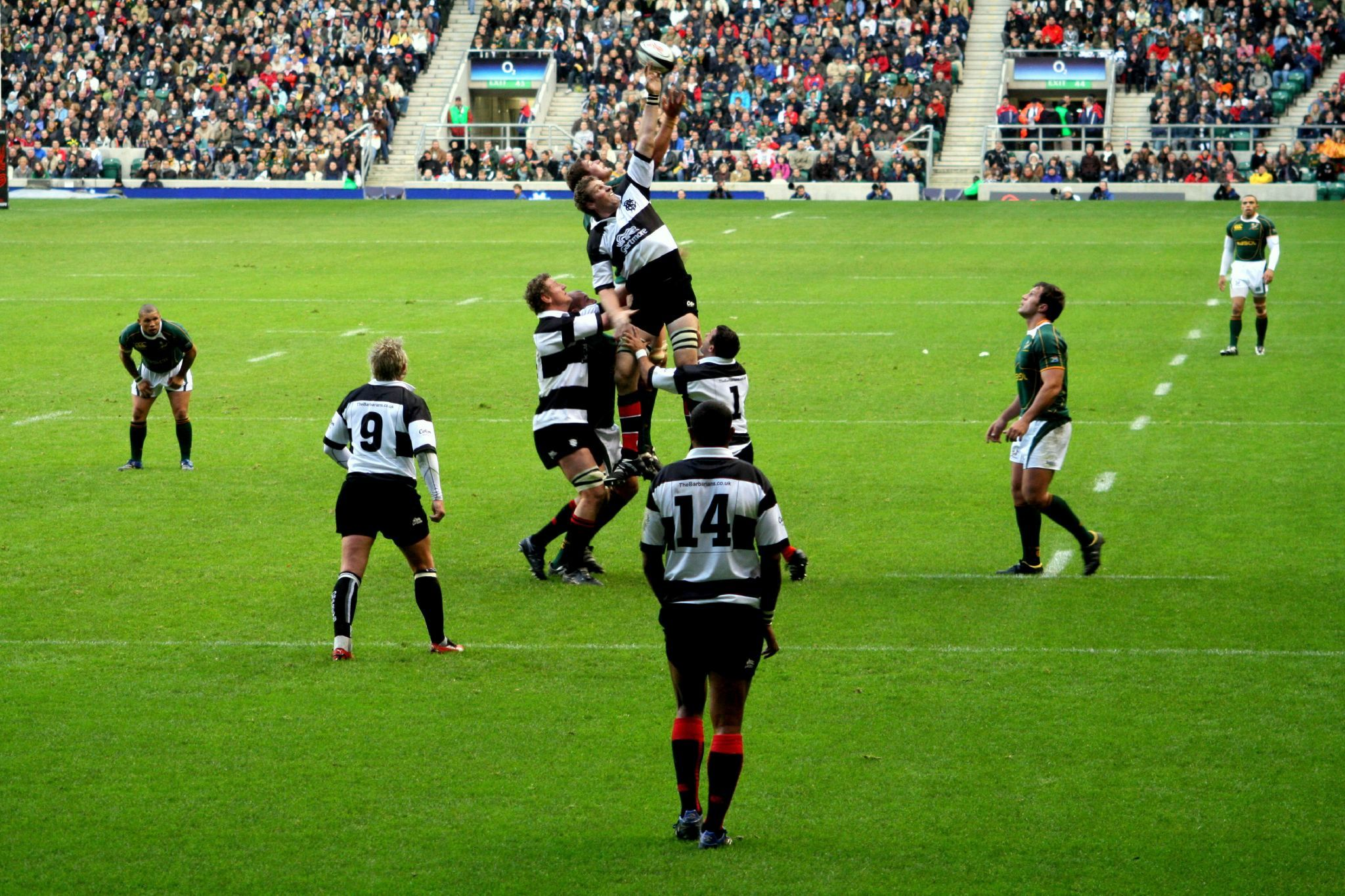 Watching the Boks lose to the Barbarians.